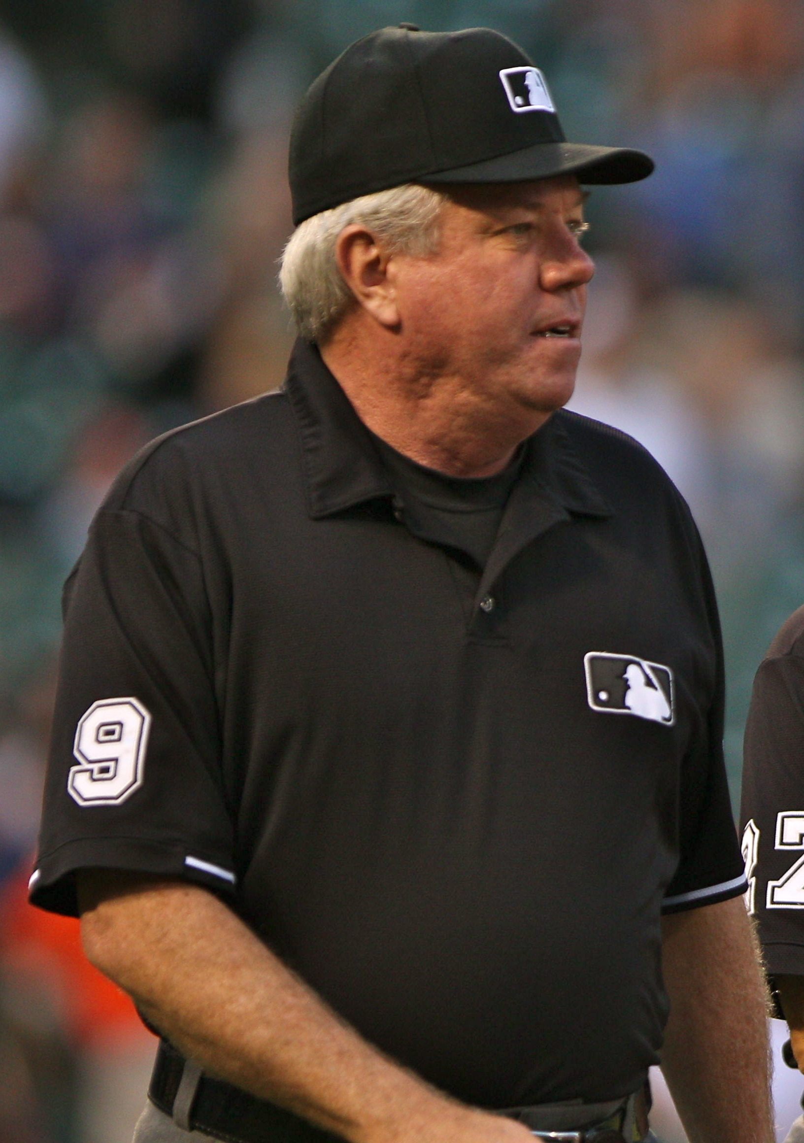 Red Sox at Orioles May 21, 2012